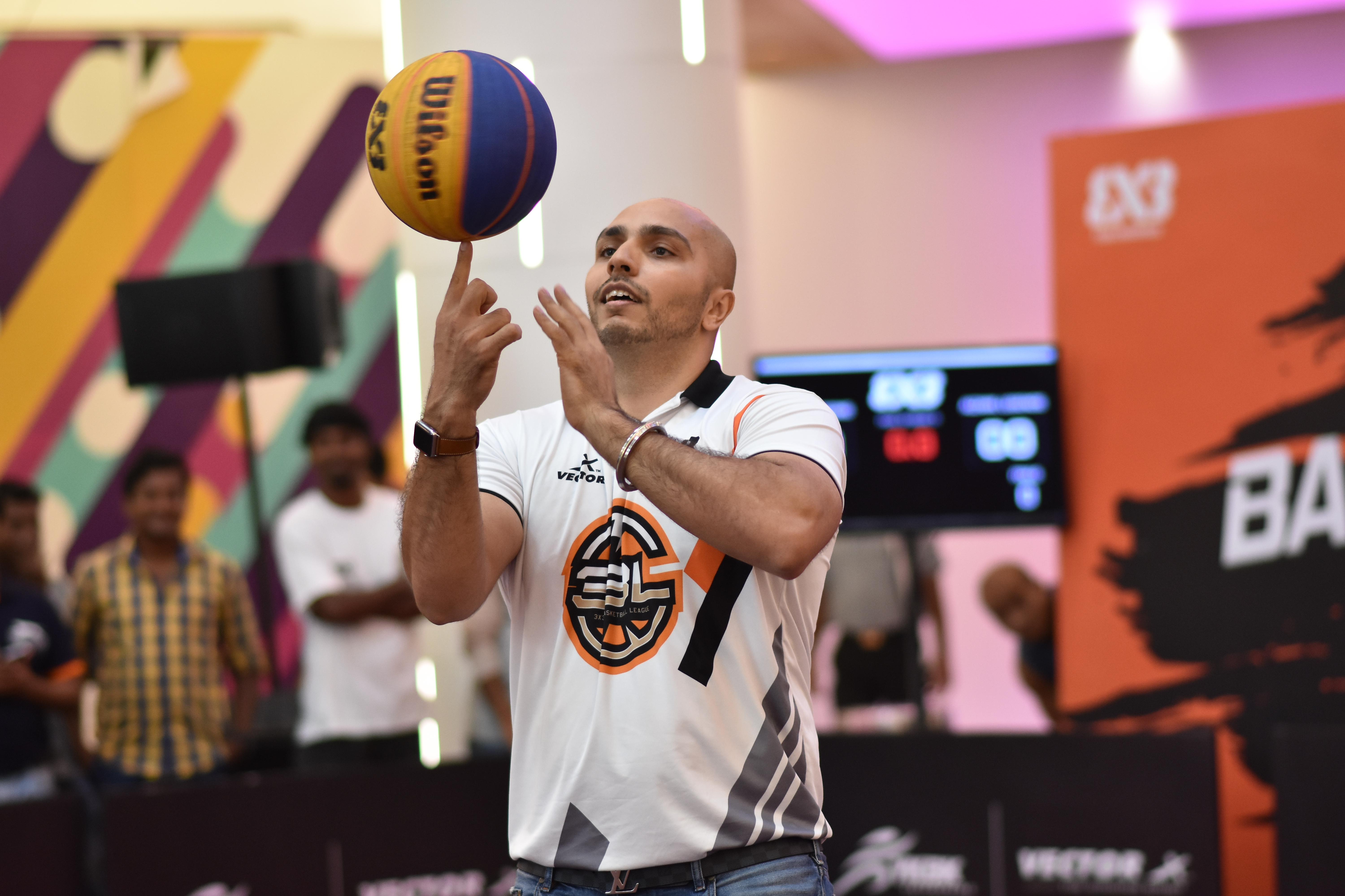 Rohit Bakshi is the commission of 3BL, the FIBA-affiliated 3x3 pro basketball league in the Indian subcontinent.